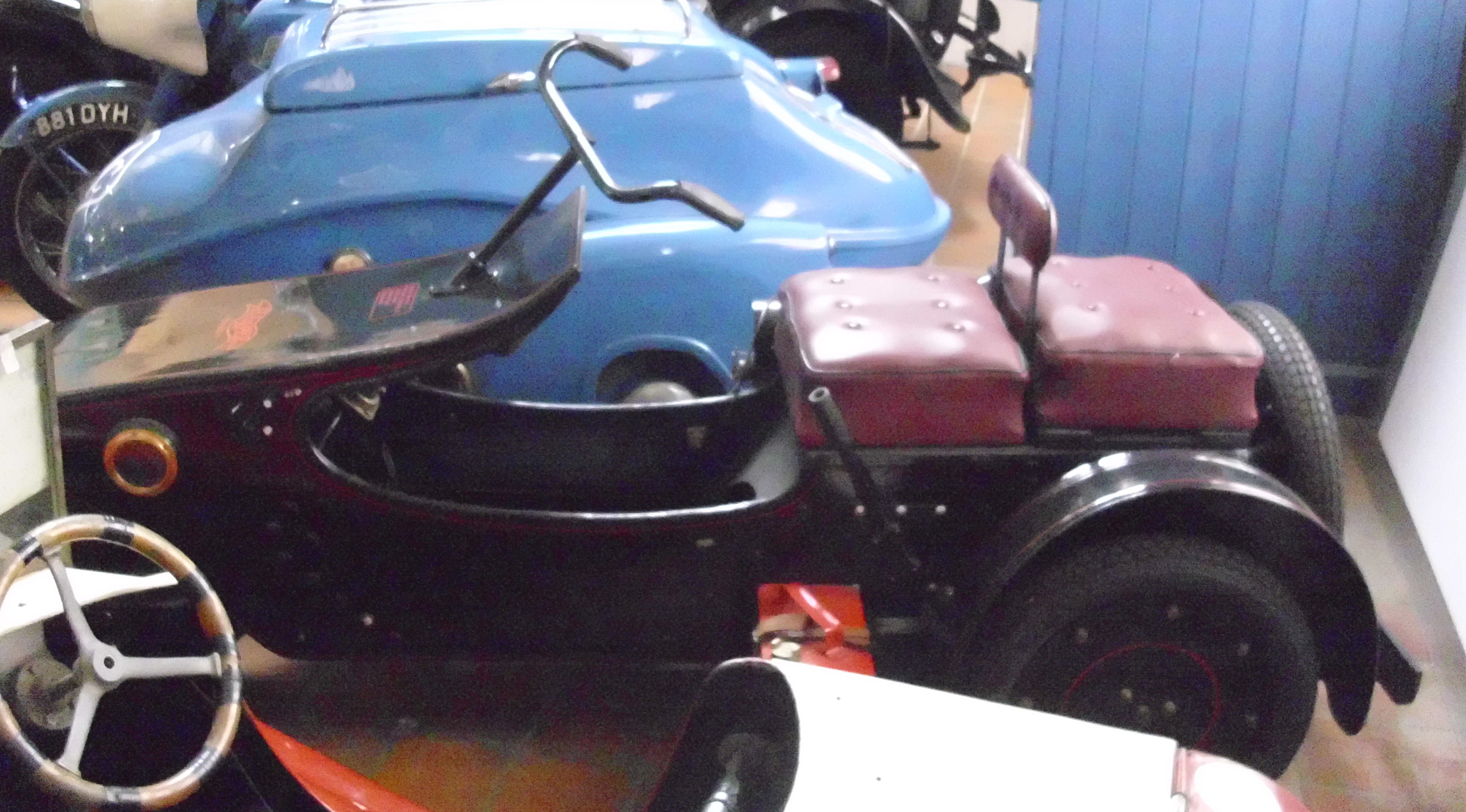 Harper Runabout 1922